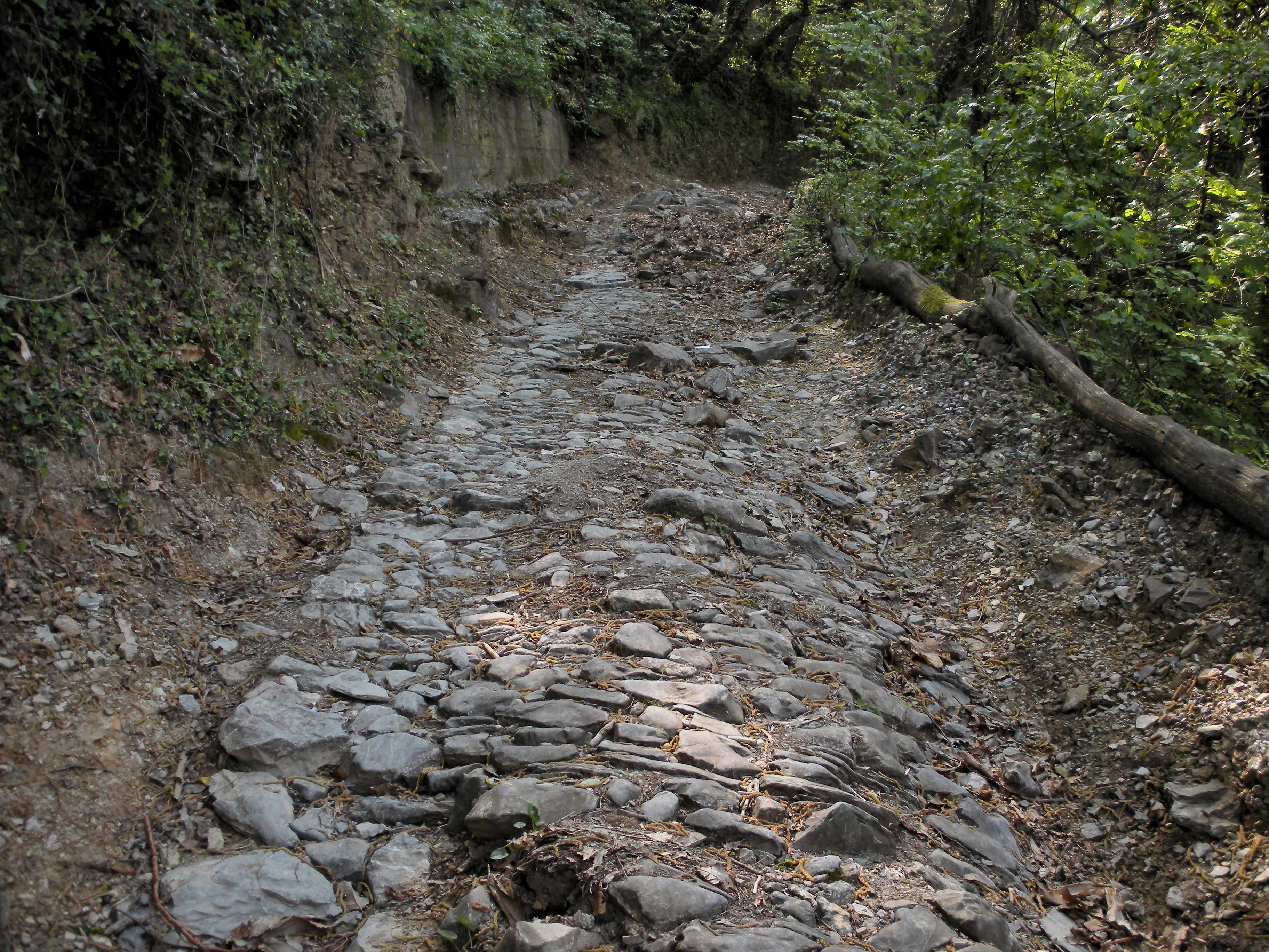 Genoa (Italy), quarter of Rivarolo, old muletrack to Granarolo